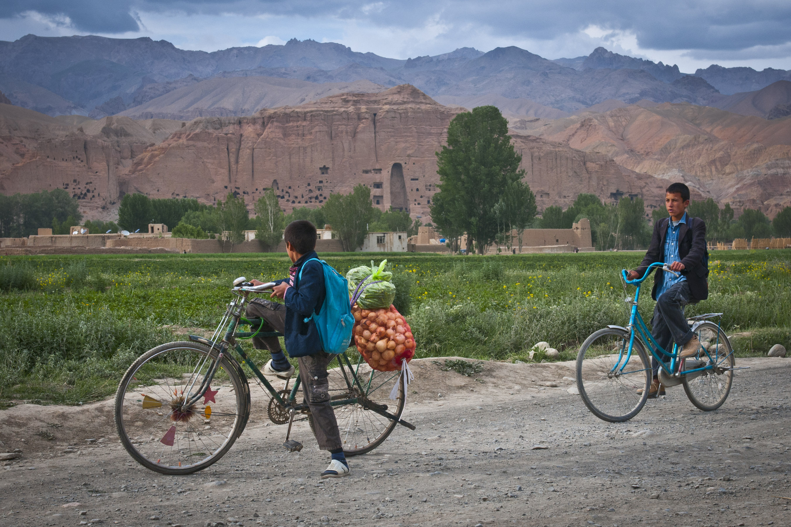 Two boys ride their bicycles up a dirt road in the Bamyan valley with the huge cavity where one of the ancient Buddhas of Bamiyan used to stand visible in the distance, June 17, 2012. The monumental statues were built in A.D. 507 and 554 and were the largest statues of a standing Buddha on Earth until the Taliban dynamited them in 2001. (Photo ID: 607654)